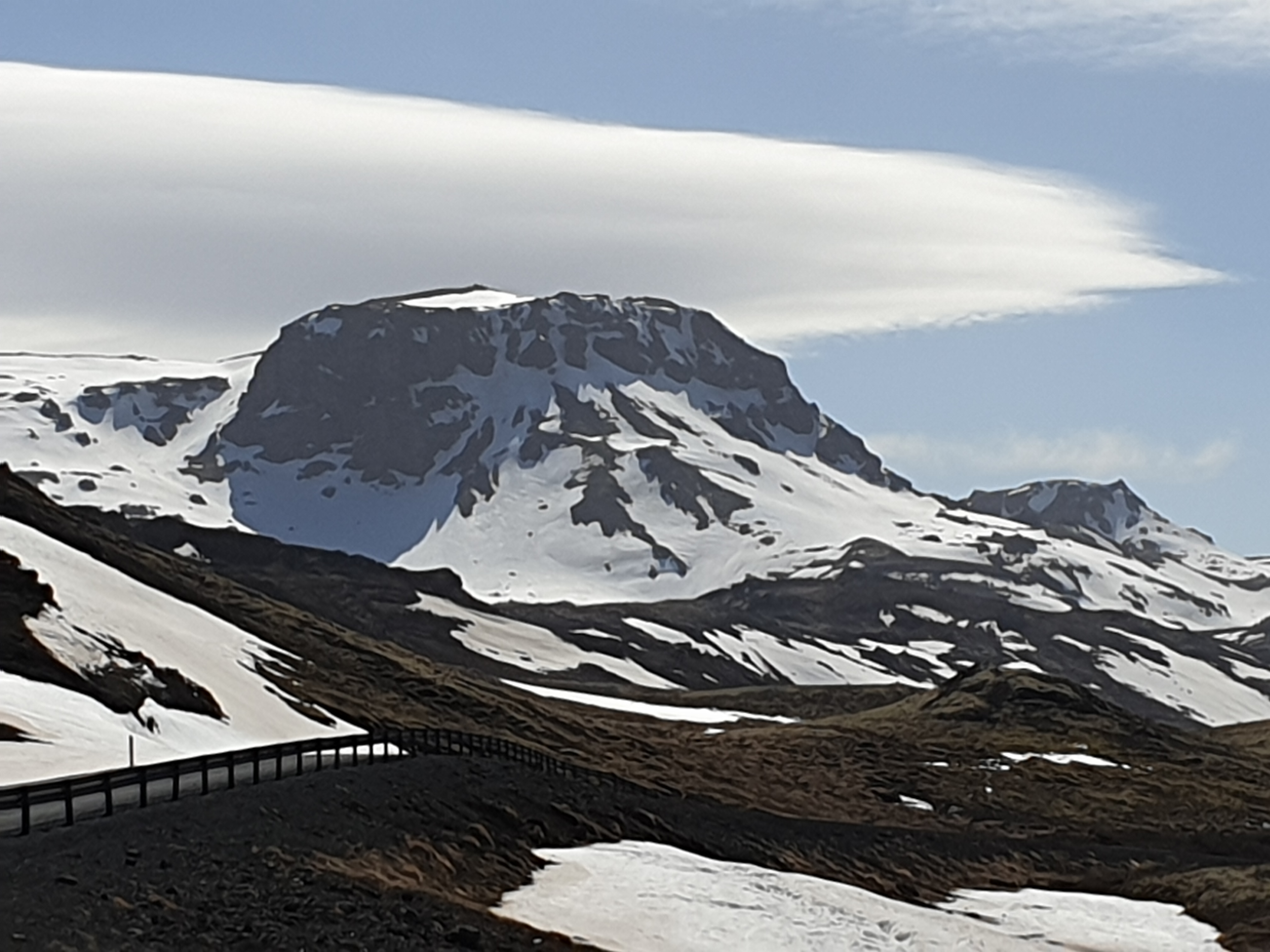 Hengill in may 2020